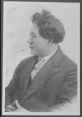 Alter Kacyzne, smoking a cigarette